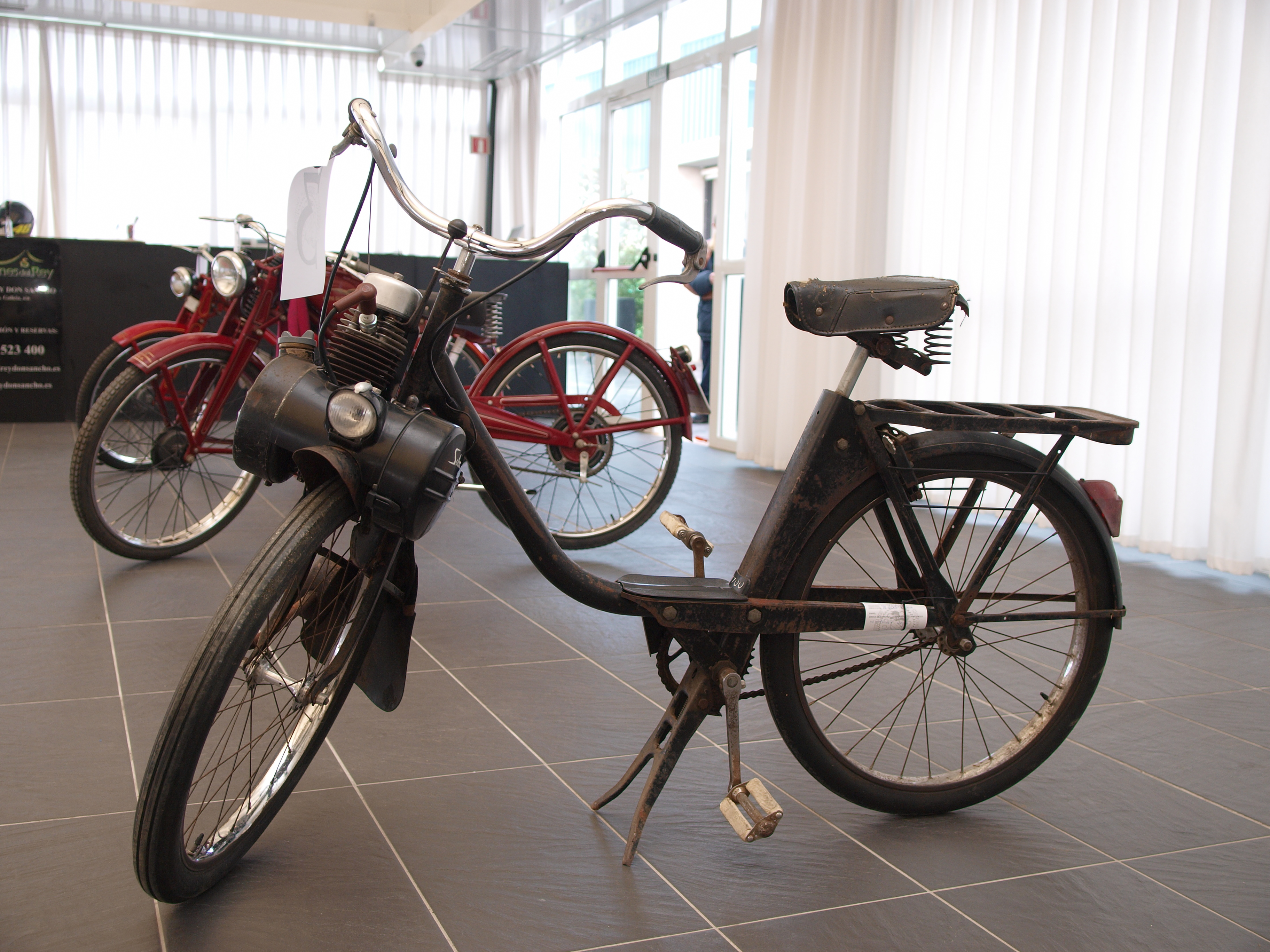 Velosolex 1700 motorized bicycle (transmission by contact roller) at exhibition in Zamora (Spain, 2012)